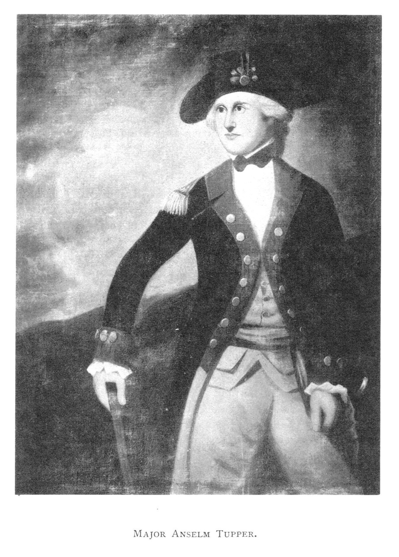 Portrait of Anselm Tupper. From the book by William L. Chaffin: History of the Town of Easton, Massachusetts, John Wilson and Son, University Press, Cambridge, Massachusetts (1886). Portrait plate located between pp. 256-57. The portrait is noted as "the work of Sully" on page 256. ColWilliam (talk) 02:06, 17 February 2010 (UTC)